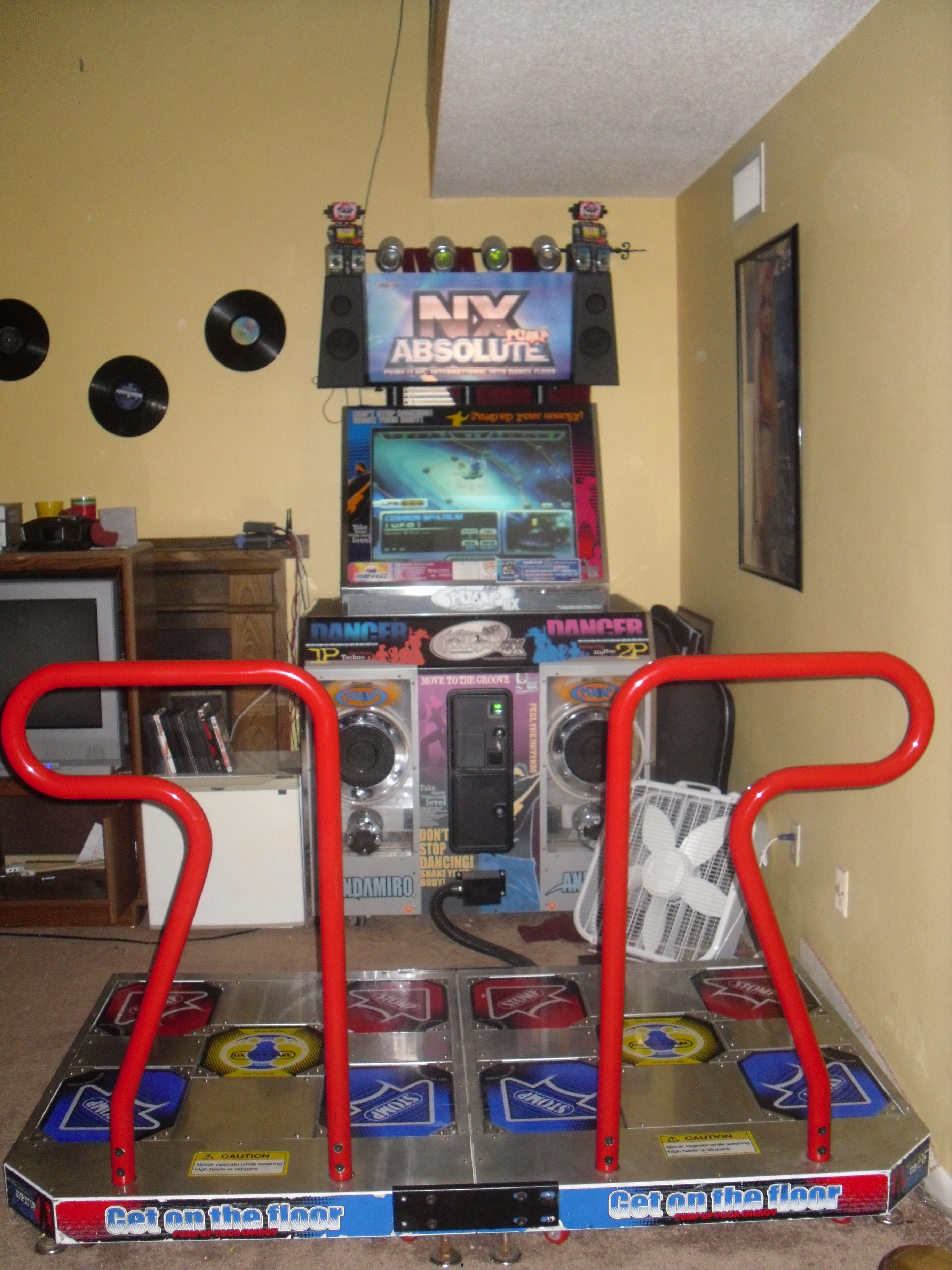 I (Funbox) created this work entirely by myself. Picture taken of my personal machine.